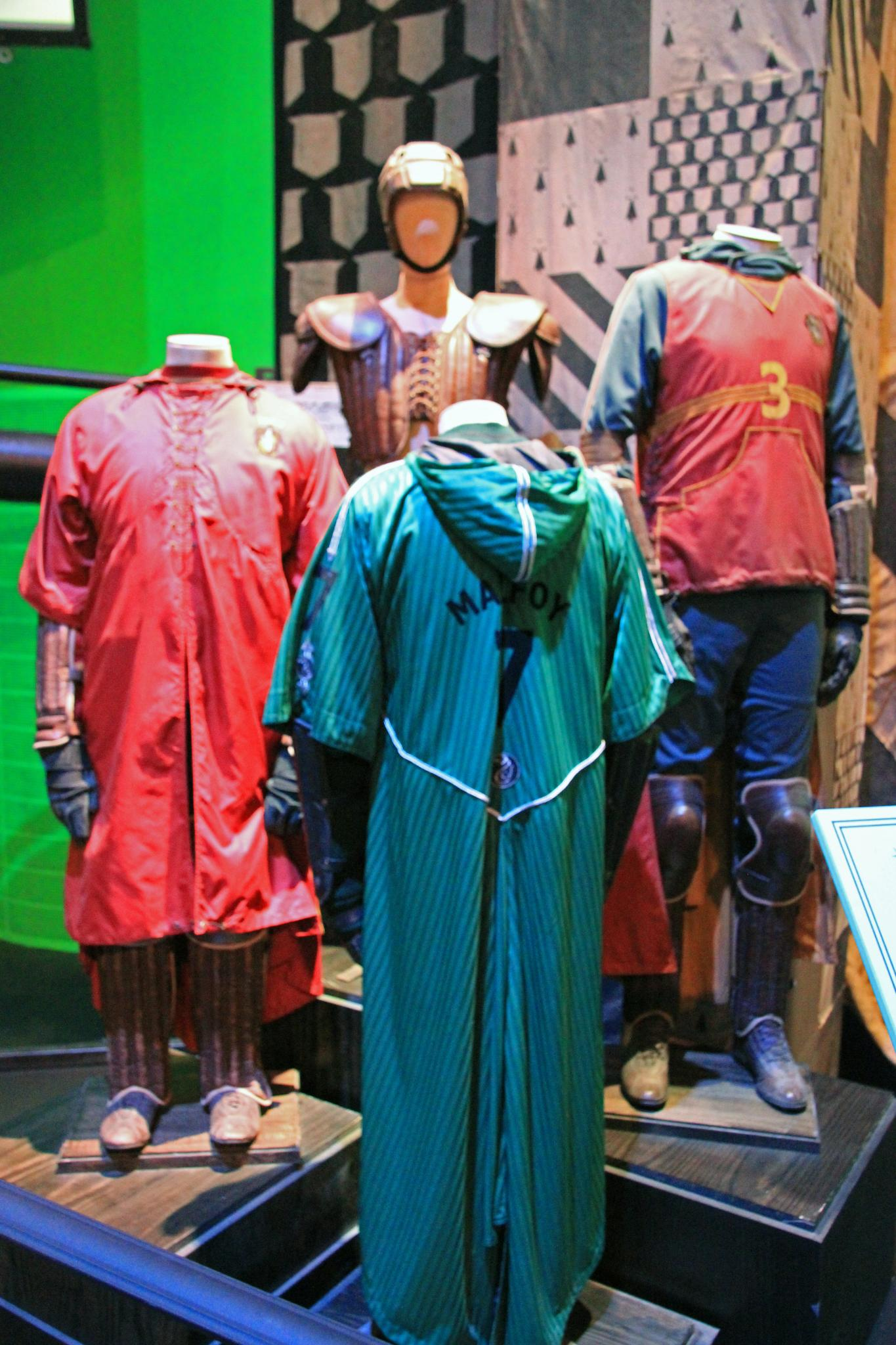 Warner Bros. Studio Tour London: The Making of Harry Potter.